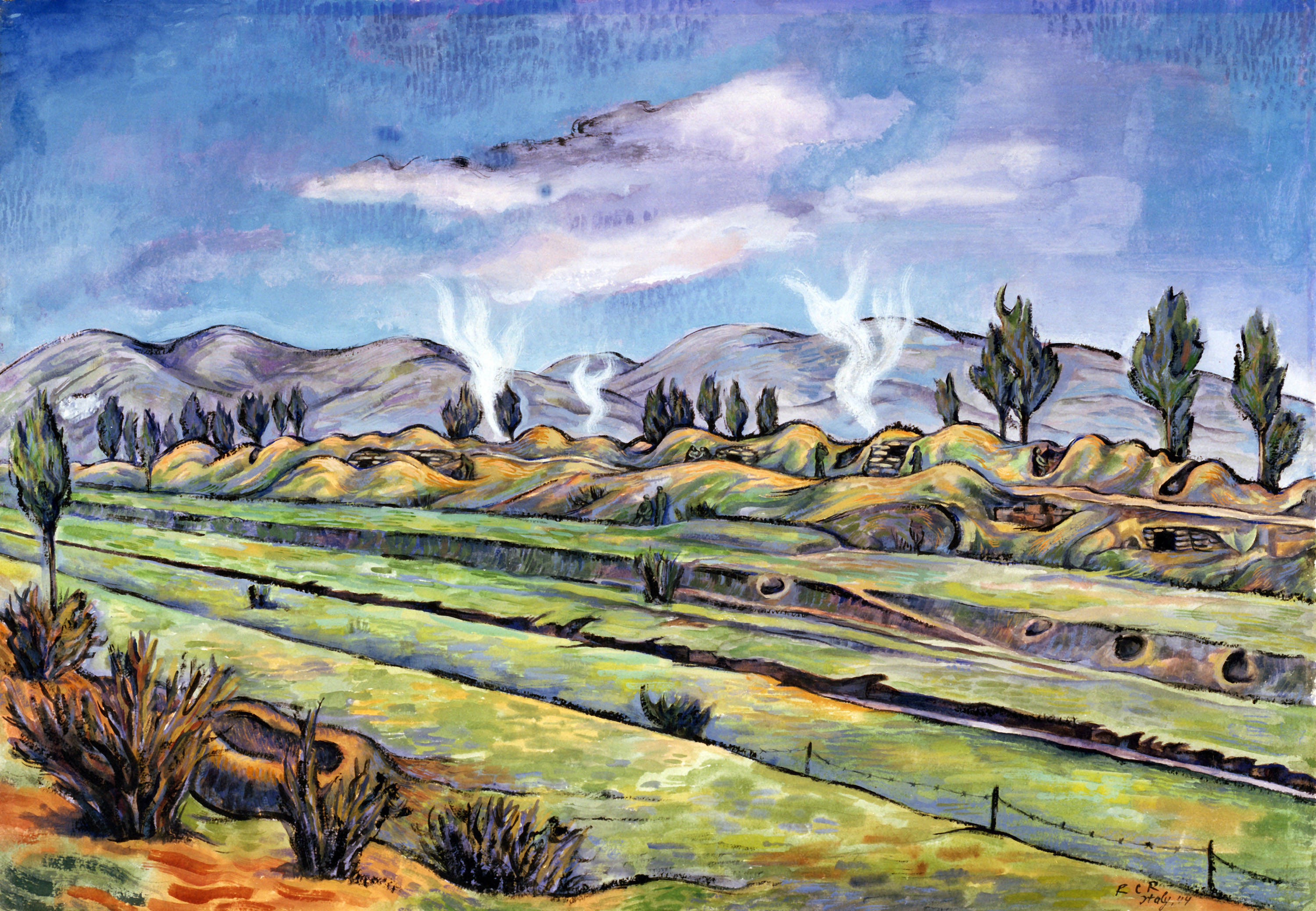 Artwork: "View of the Mussolini Canal," Italy, 1944. Artist: Rudolph C. von Ripper. US Army Art Collection. Photographed 1986.